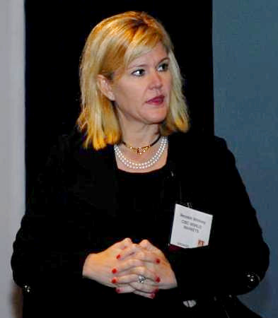 Meredith Whitney, CIBC Sr. Financial Institutions Analyst, at an industry conference in New York